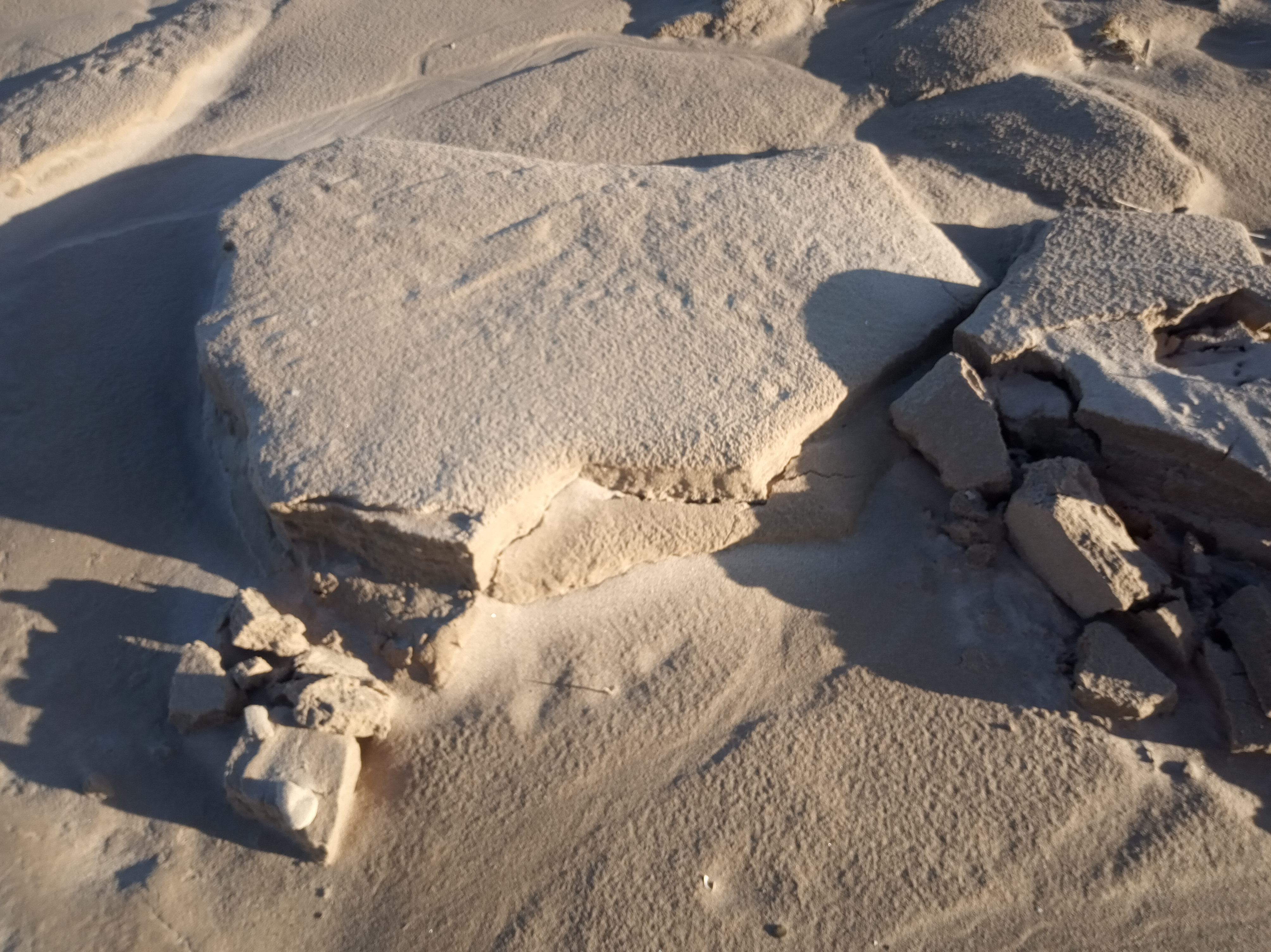 Shelf ice covered with heavy layer of sand at Lake Street Beach in Gary Indiana, showing gradual effects of drying and cracking as the ice melts. Small meltwater fan is evident below the hummock, and aeolian bedforms are beginning to re-establish on top of it.